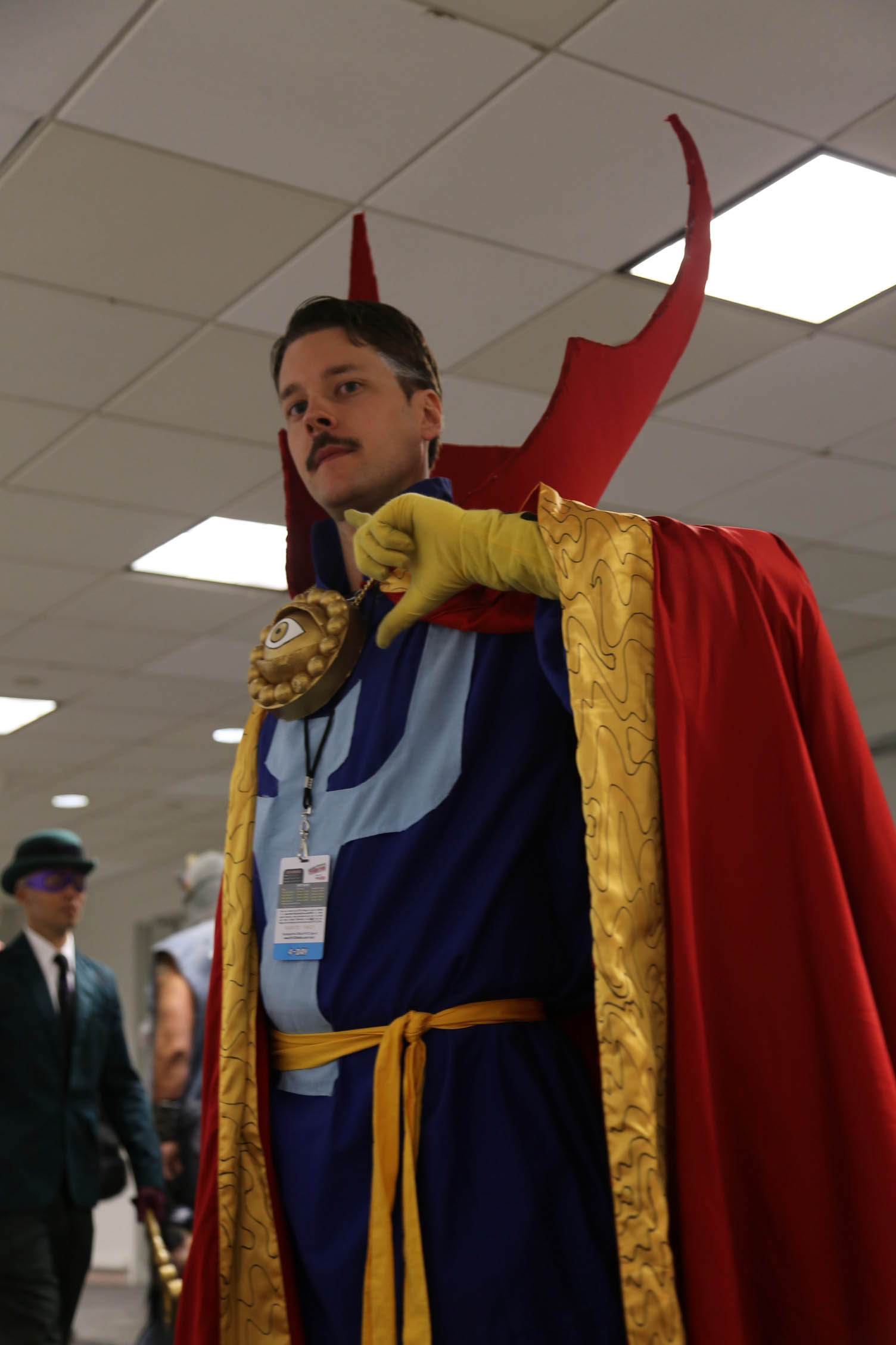 Cosplay at the 2014 New York Comic Con.